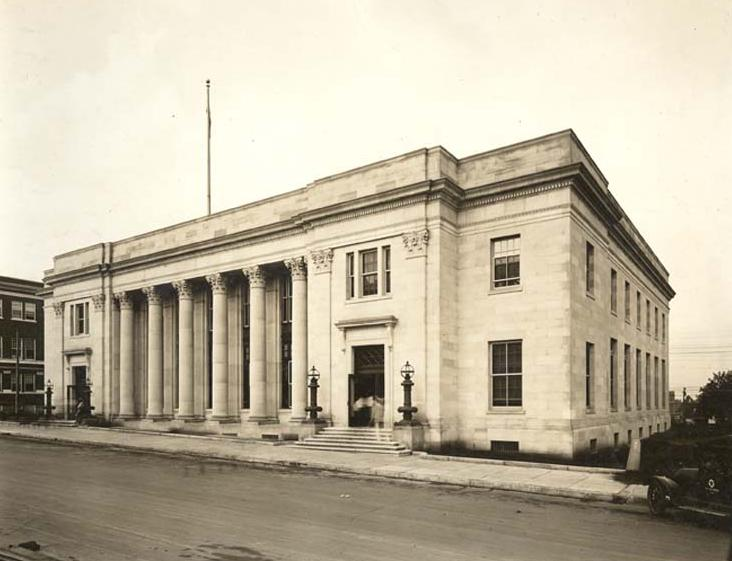 Historic Federal Courthouses Tulsa, Oklahoma U.S. Post Office and Court House (n.d, ca. 1917; 1932) Completed in 1917. Extension completed in 1932. Supervising Architect of original building and extension: James A. Wetmore Still in use by the U.S. District Court for the Northern District of Oklahoma, which began meeting here in 1925; the U.S. District Court for the Eastern District of Oklahoma met here until the creation of the Northern District in 1925.